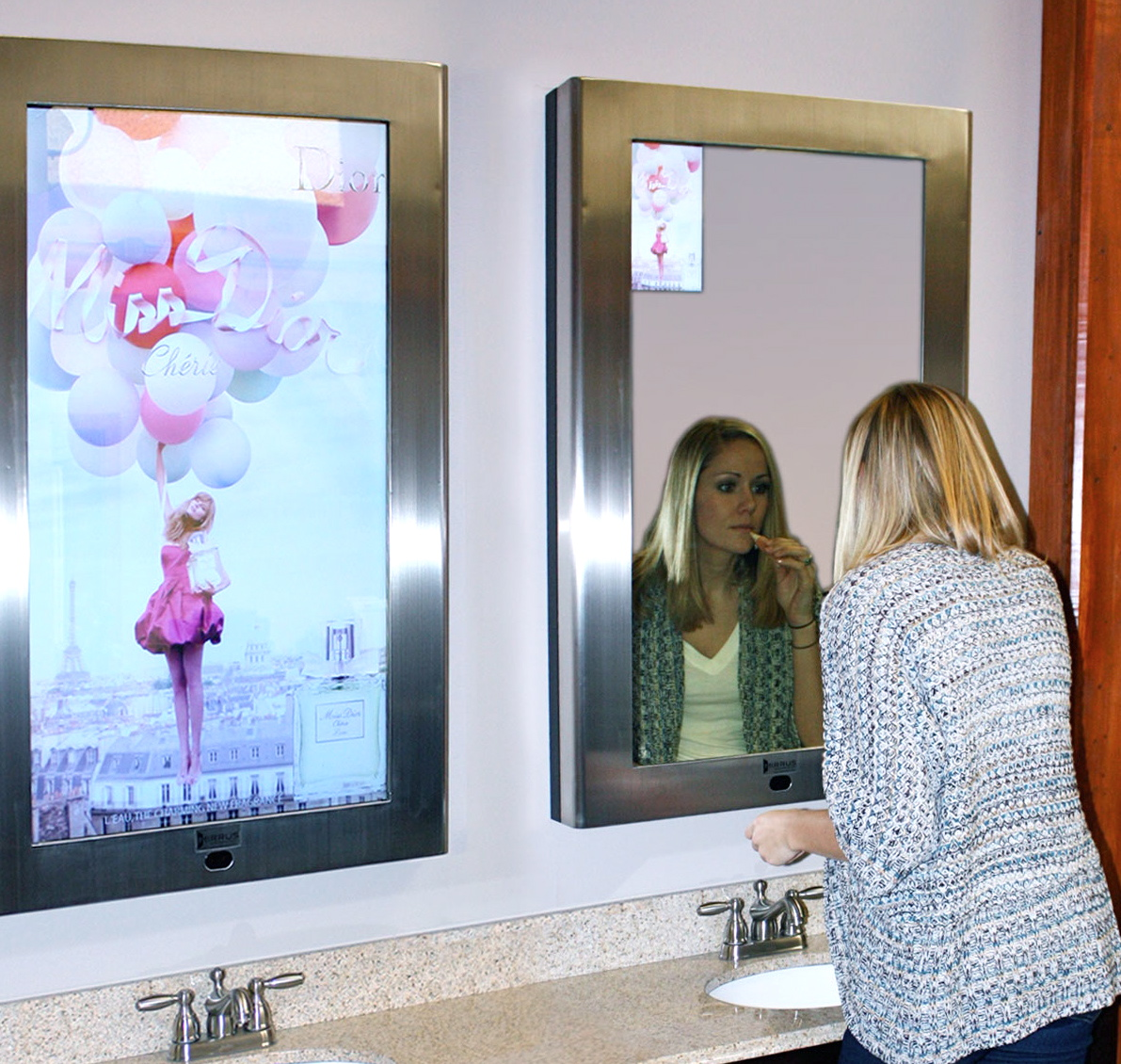 Mirrus Mirror Technology.